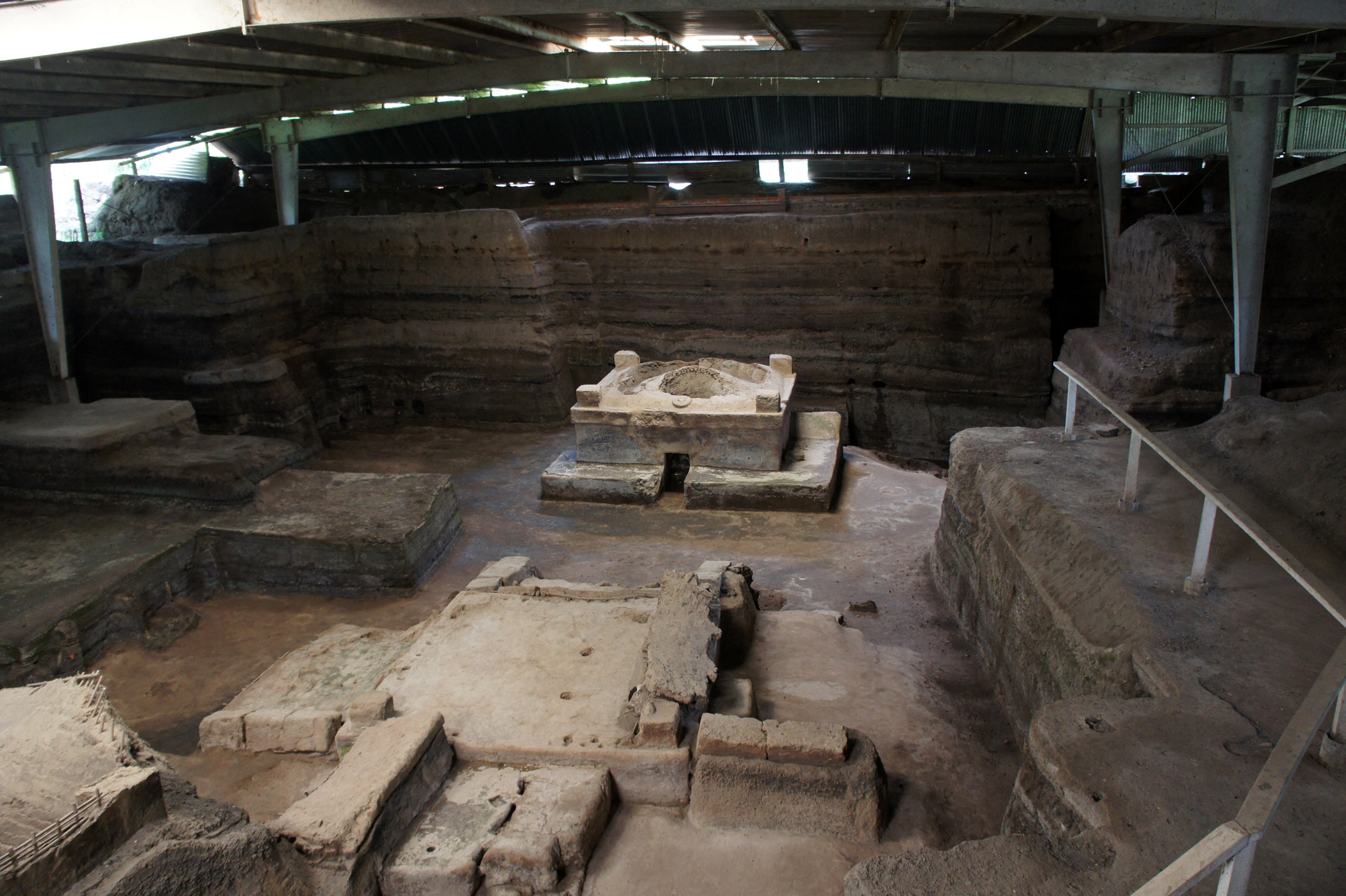 Panoramic view of the Tamazcal (Structure 9) excavated at Area 2. Remains of maya village of Joya de Cerén buried by volcano eruption around A.D. 600 (El Salvador).